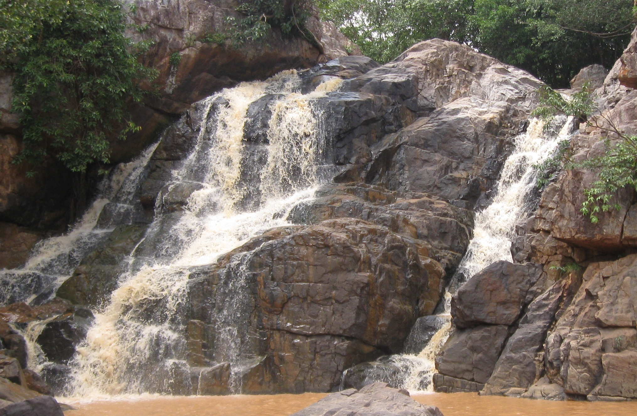 Sanaghagara in the Rainy Season.